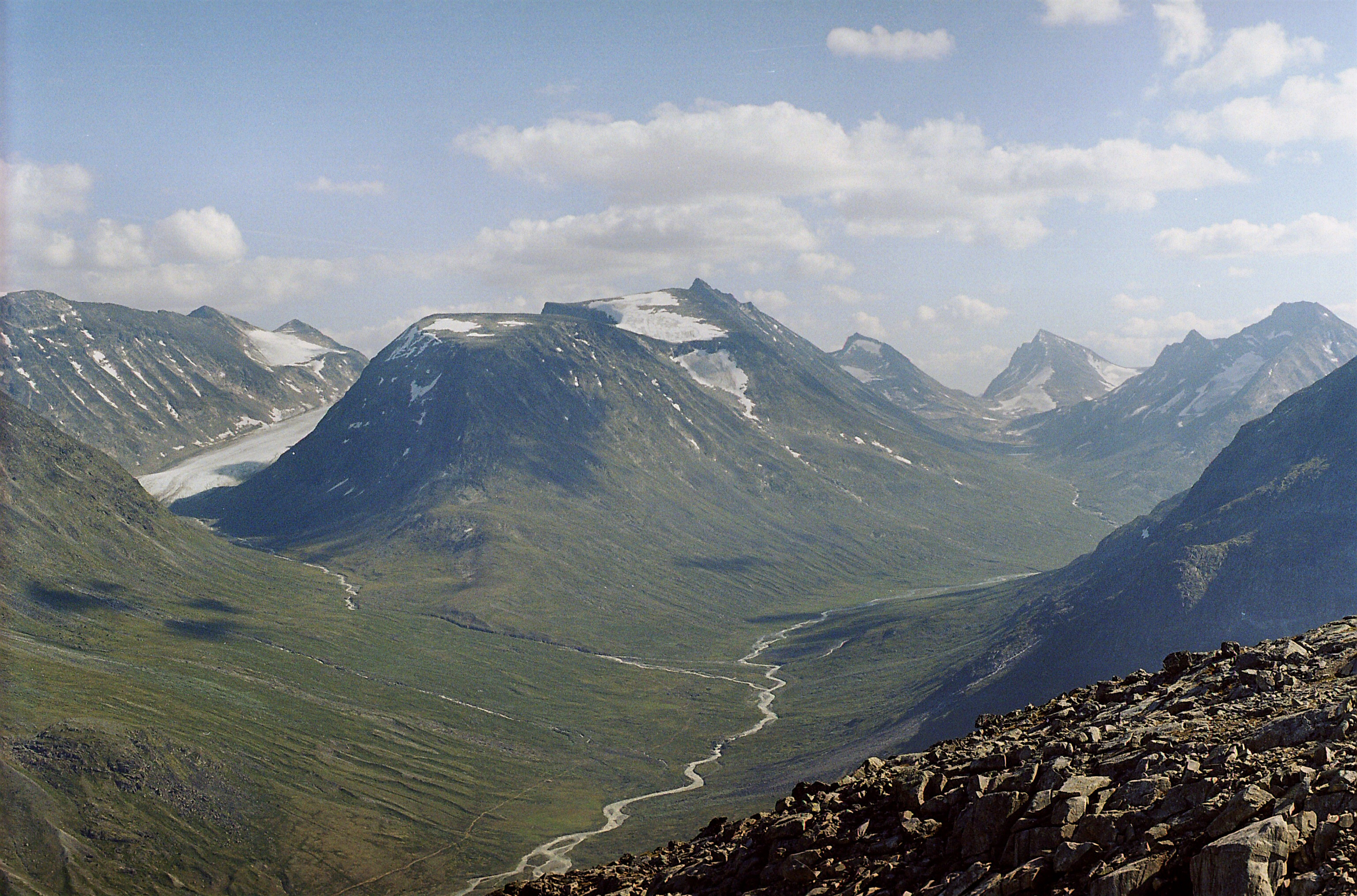 Jotunheimen National Park. Summer 2004. Looking up Visdalen towards Hellstugutindane and Urdadalstindane. The glacier to the left is Hellstugubreen.